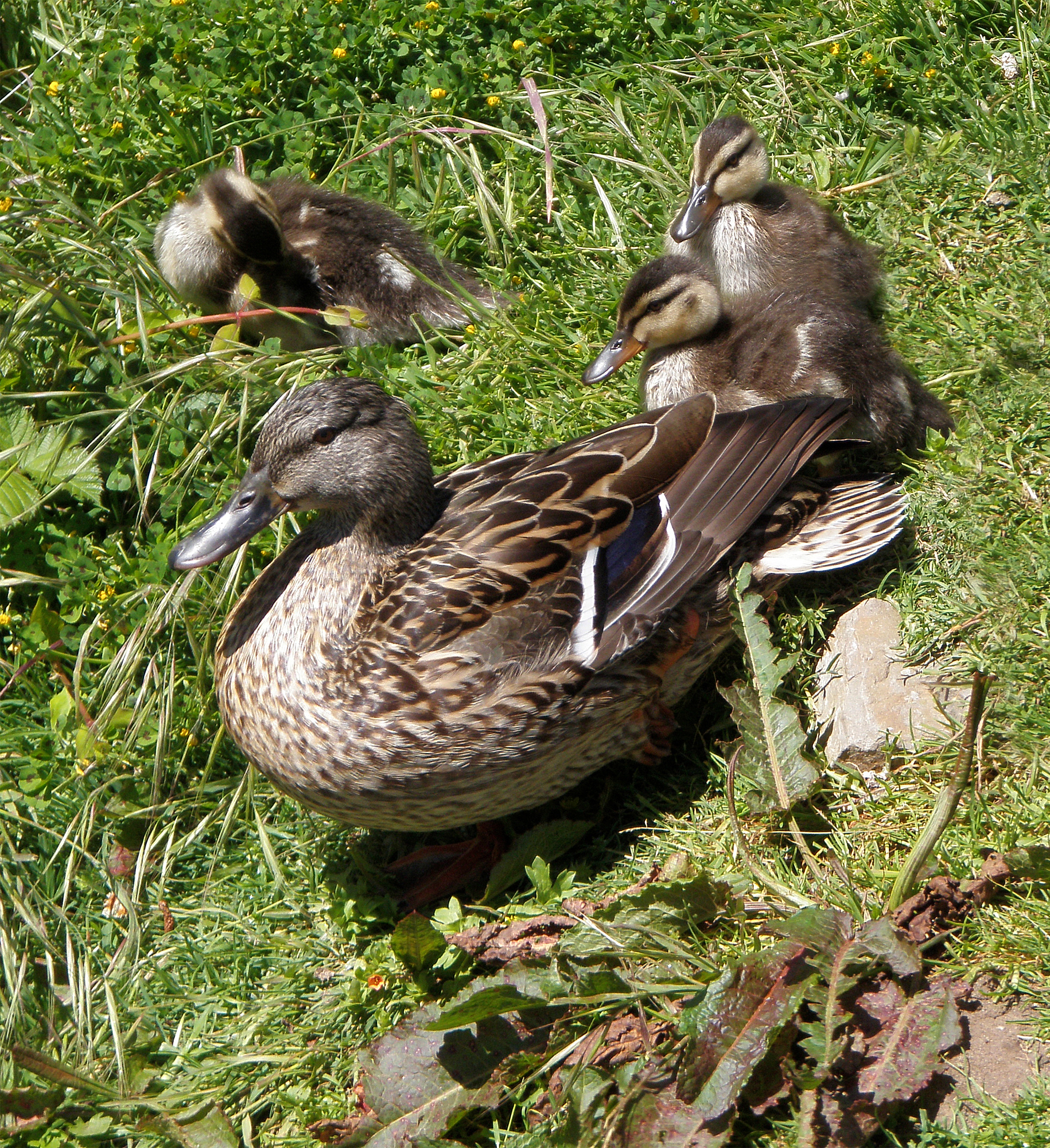 Female Mallard (Anas platyrhynchos) with ducklings